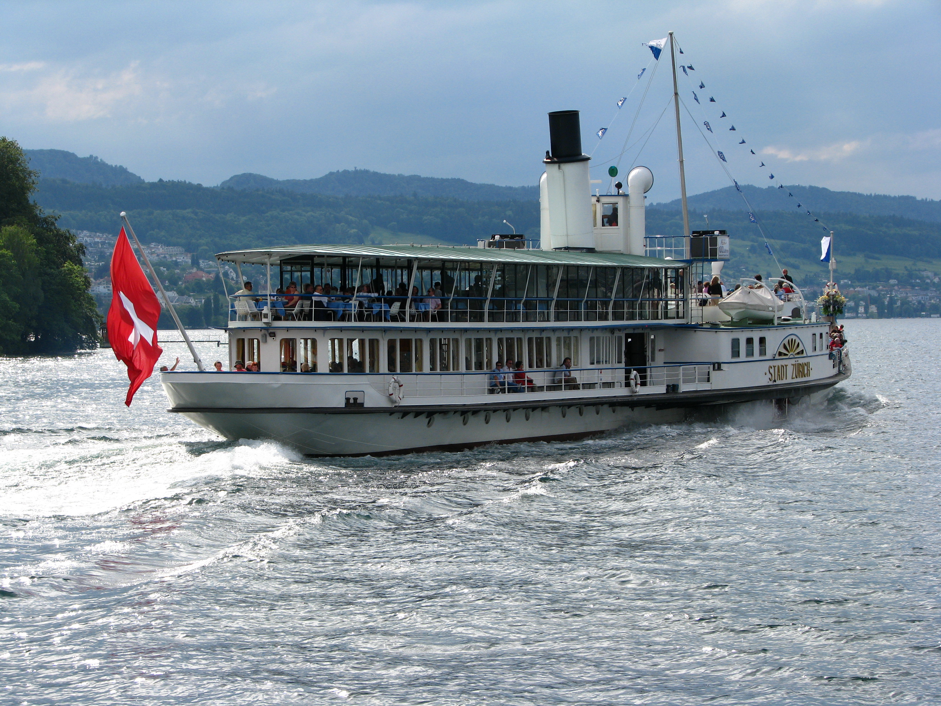 Zürichsee-Schiffahrtsgesellschaft (ZSG) paddle steamer Stadt Zürich at Au peninsula, Ablis hils in the background.